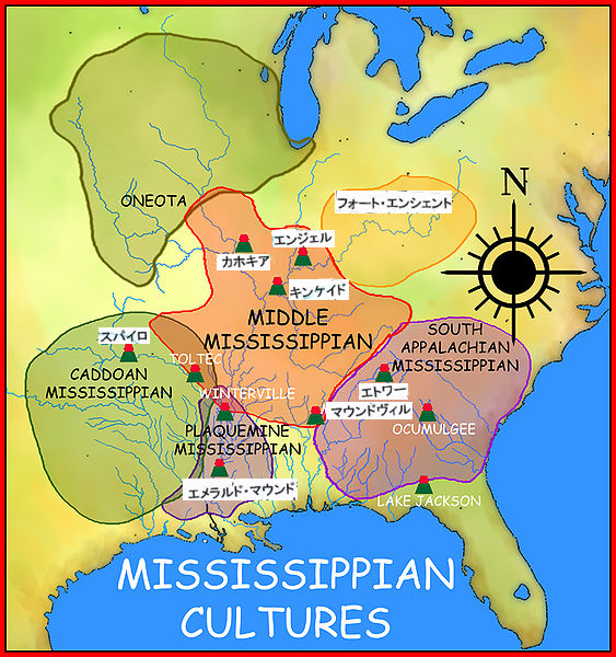 A map showing a few major Mississippian cultures and ceremonial centers, with main sites in Japaneese.